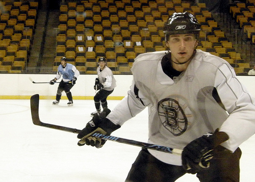 Blake Wheeler, right wing for the Boston Bruins, at a pre-season practice, November 20, 2008